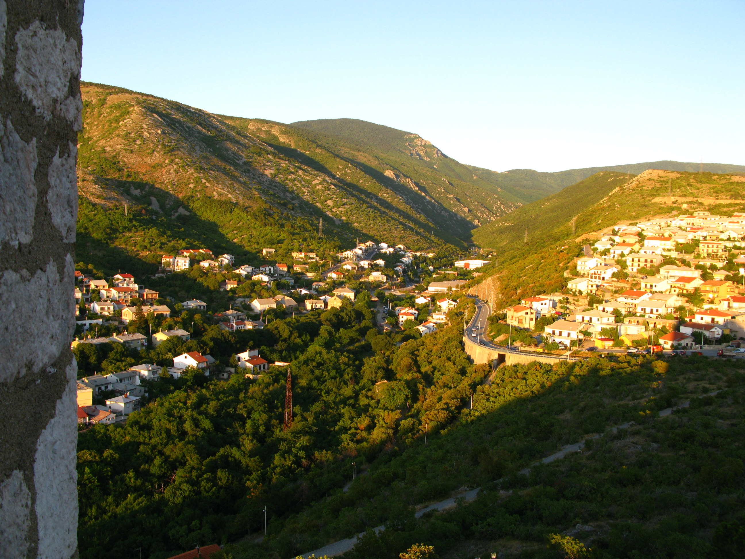 Northern part of Senj / Croatia / Adriatic Sea.